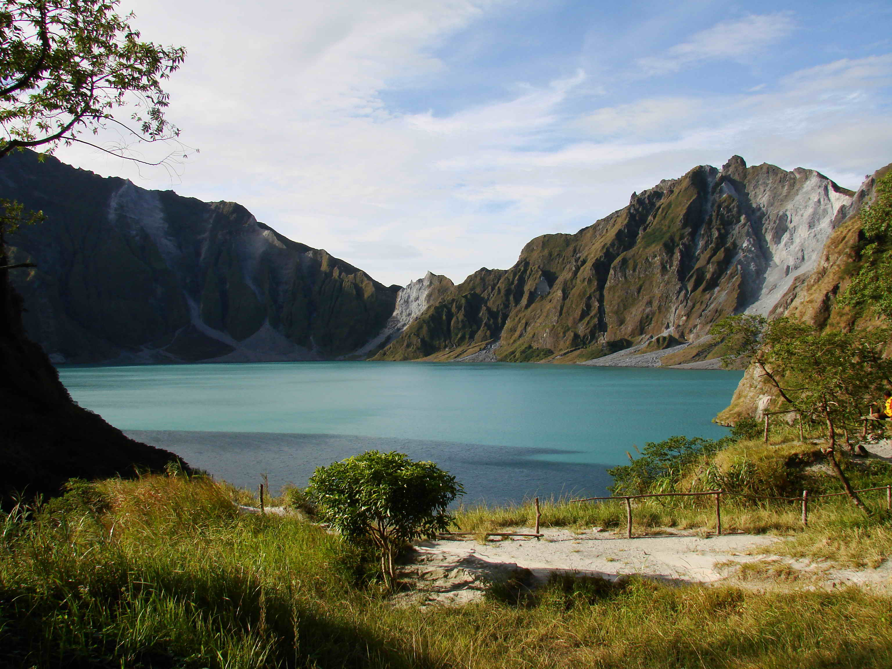 View from scenic lookout, early a.m.